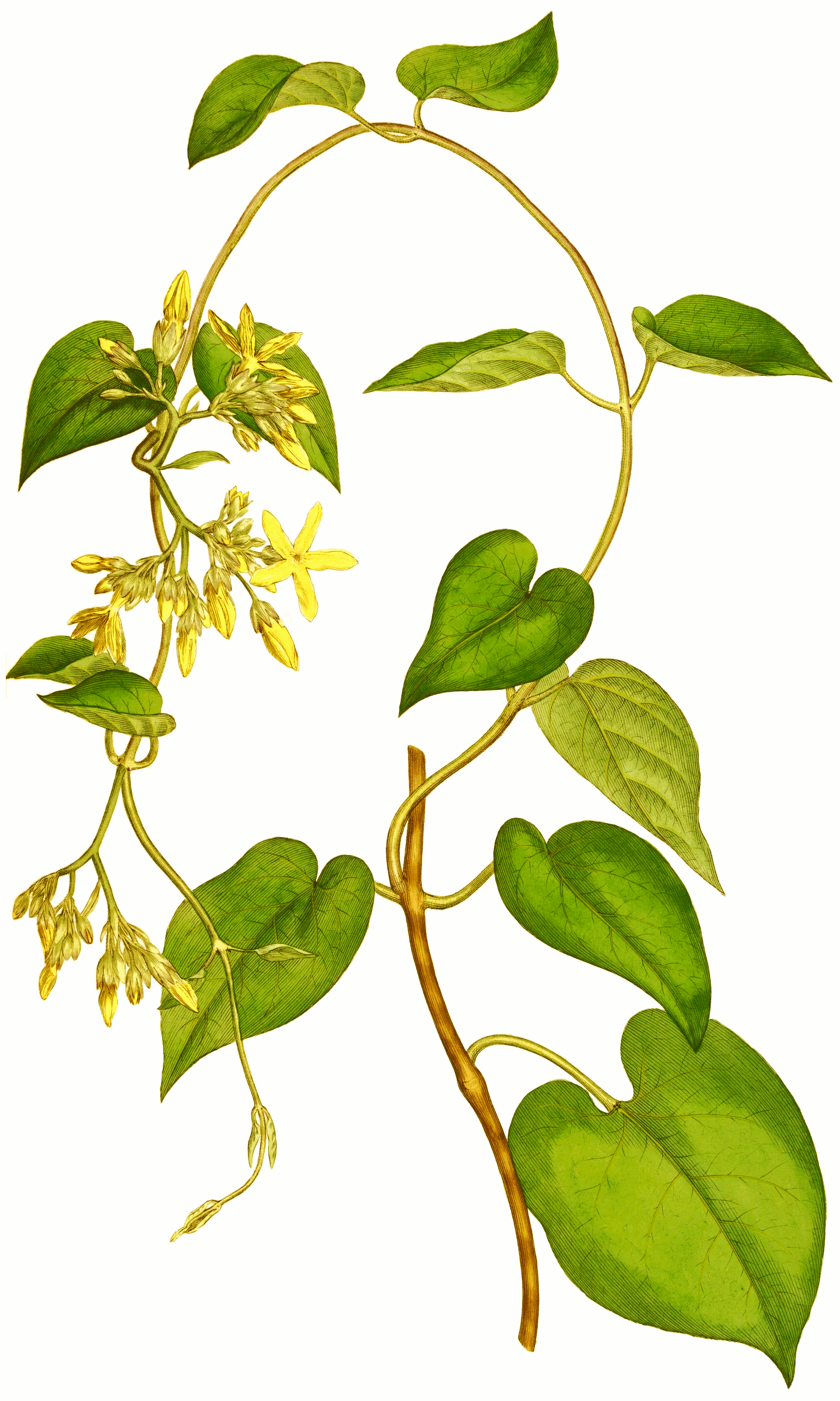 Plate from book